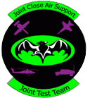 The BAT represents the Battlefield Analysis Team. Each vehicle represents an armed service (Army, Air Force, Navy, Marines). The purple represents 'Joint' as it is the color that symbolizes all branches of the military.